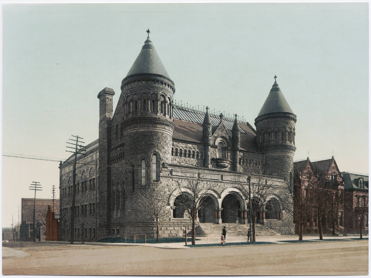 A photochrom postcard published by the Detroit Photographic Company.